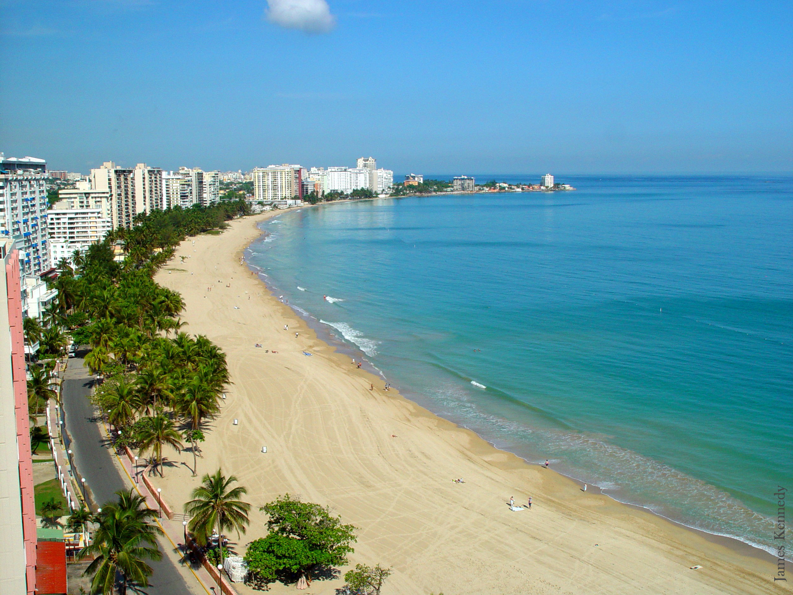 Coral Beach, Isla Verde, Puerto Rico